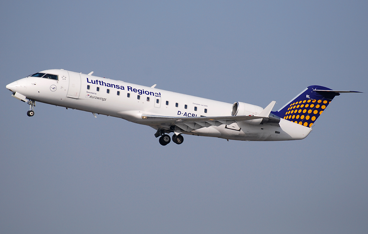 LH op by EW